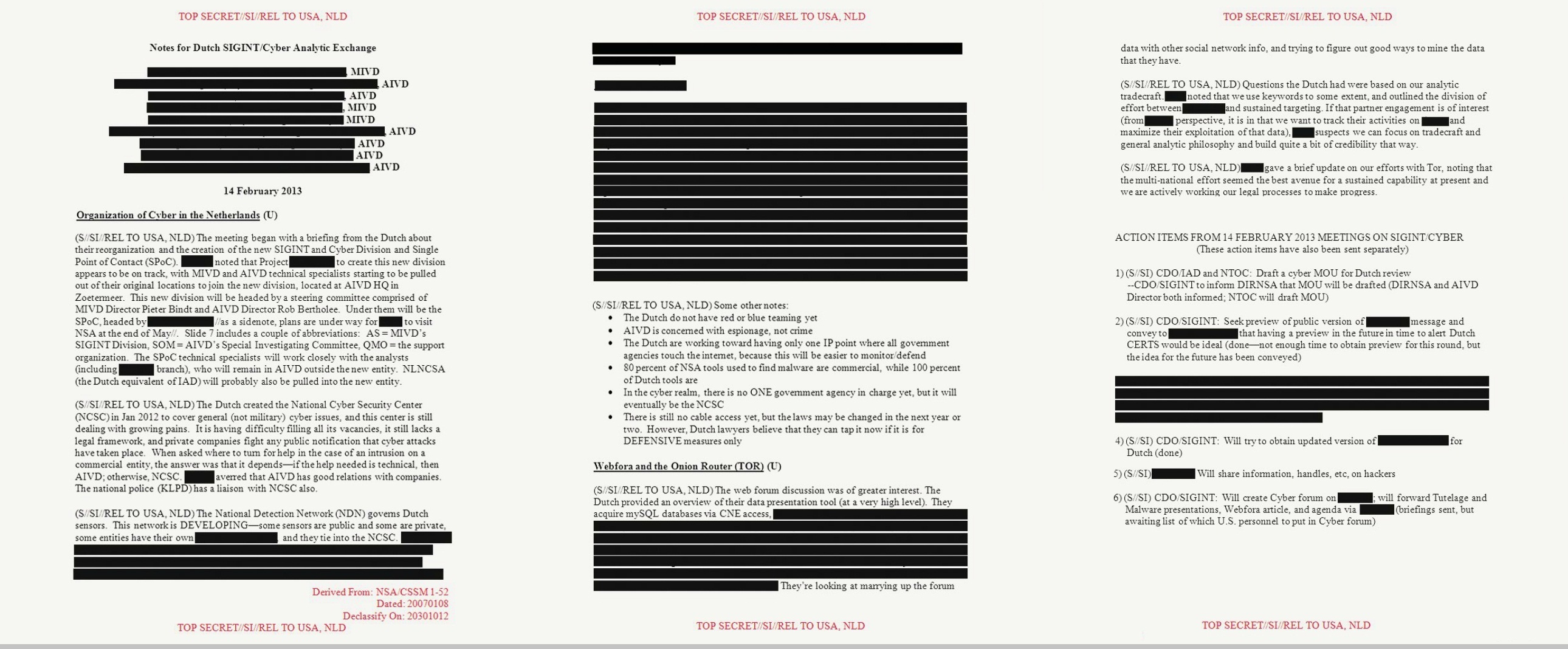 A secret document of former NSA-contractor Edward Snowden shows that the AIVD use a technology called Computer Network Exploitation – CNE – to hack the web forums and collect the data.